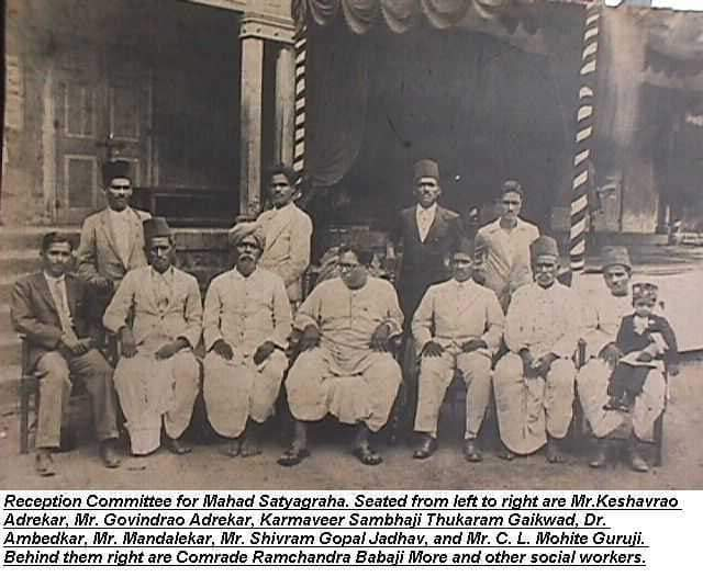 Reception Committee for Mahad Satyagraha with Dr. B.R.Ambedkar along with R.B. More and other social workers